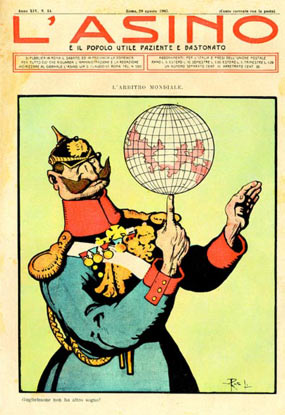 Cover of “L'Asino” (“The donkey”), italian satirical magazine editted since 1892 to 1925